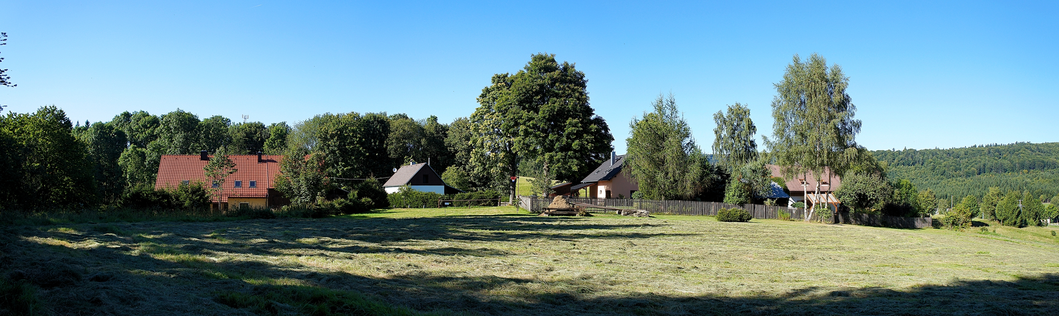 Jindřichova Hora (Plzeň Region, Czechia).